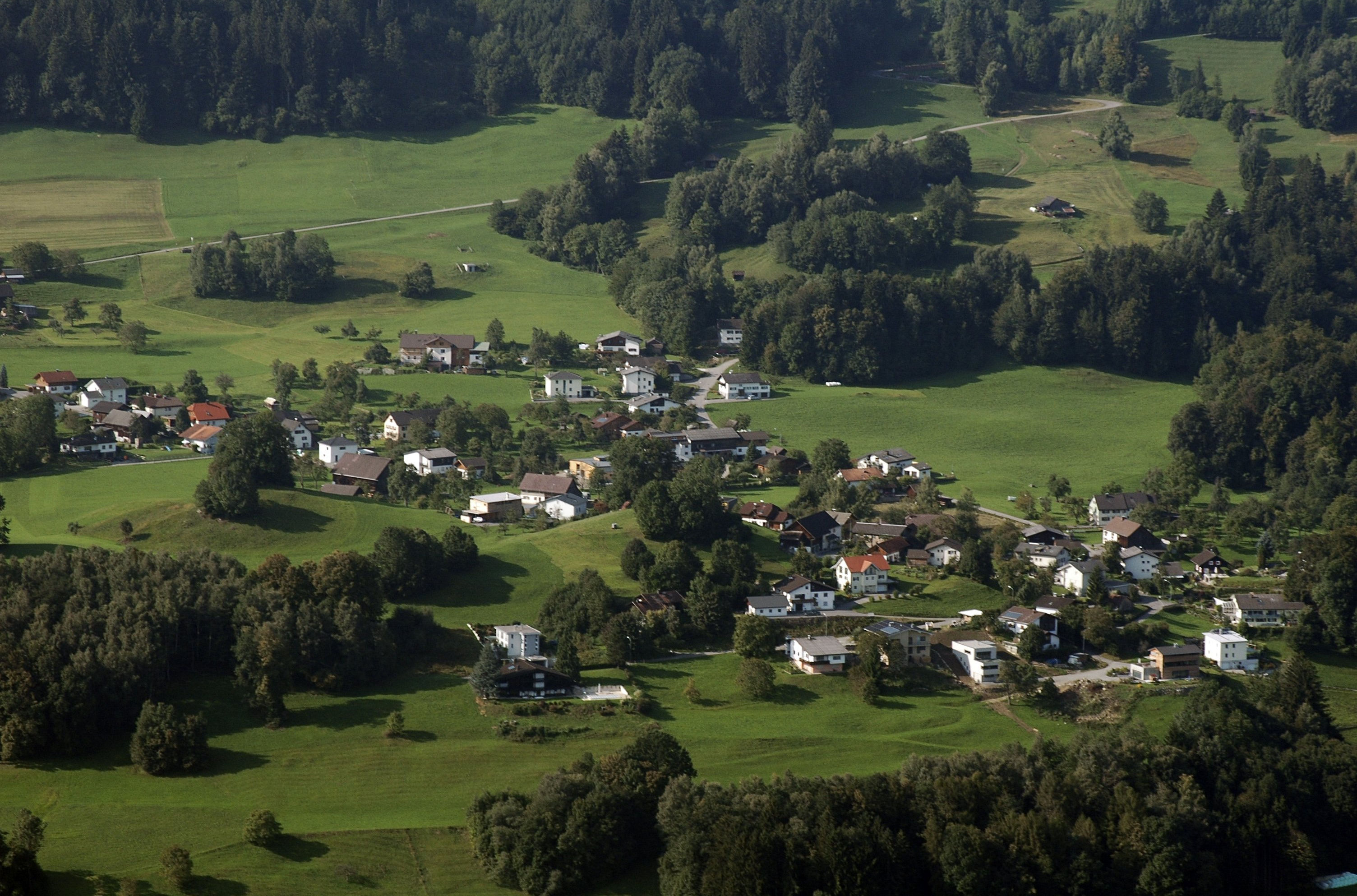 View of the hamlet Frastafeders in Frastanz, Vorarlberg, Austria.